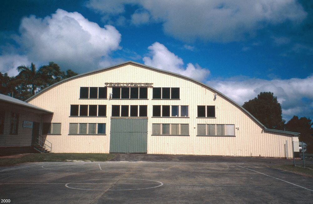 Merriland Hall (2000), rear of building